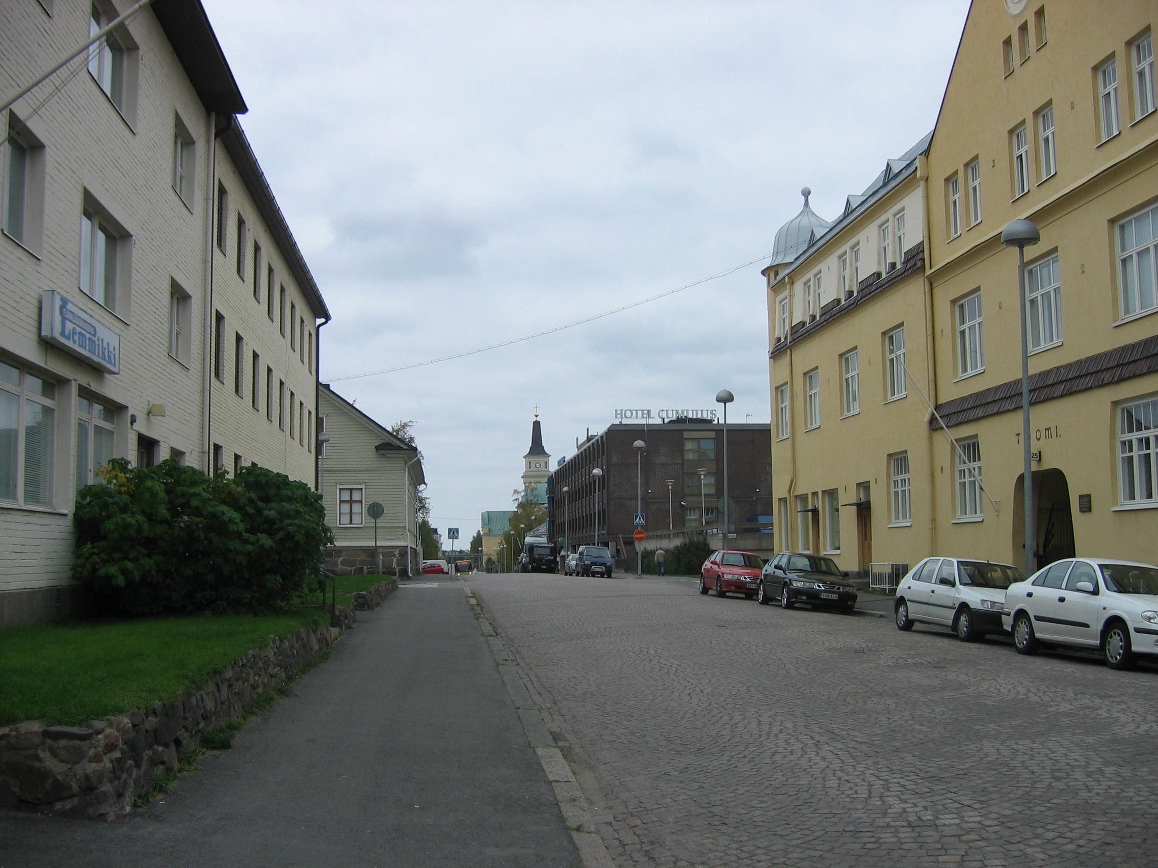 The street Kajaaninkatu in the centre of the city of Oulu, Finland, seen towards the West.